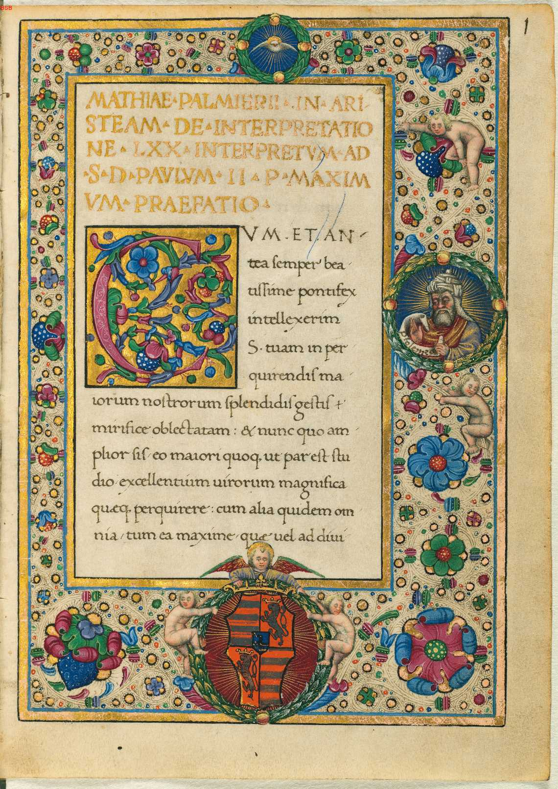 Epistula ad Philocratem, known in English as Letter to Philocrates or Letter of Aristeas. Latin translation by Mattia Palmieri. Manuscript of cirсa 1480. Munich, Bayerische Staatsbibliothek (BSB Clm 627). Vignette on the right represents Ptolemy II who is said by Aristeas to have ordered the creation of Septuagint. Th crest in the lower border is that of the book's first owner, Matthias Corvinus who was the king of Hungary from 1458 to 1490.